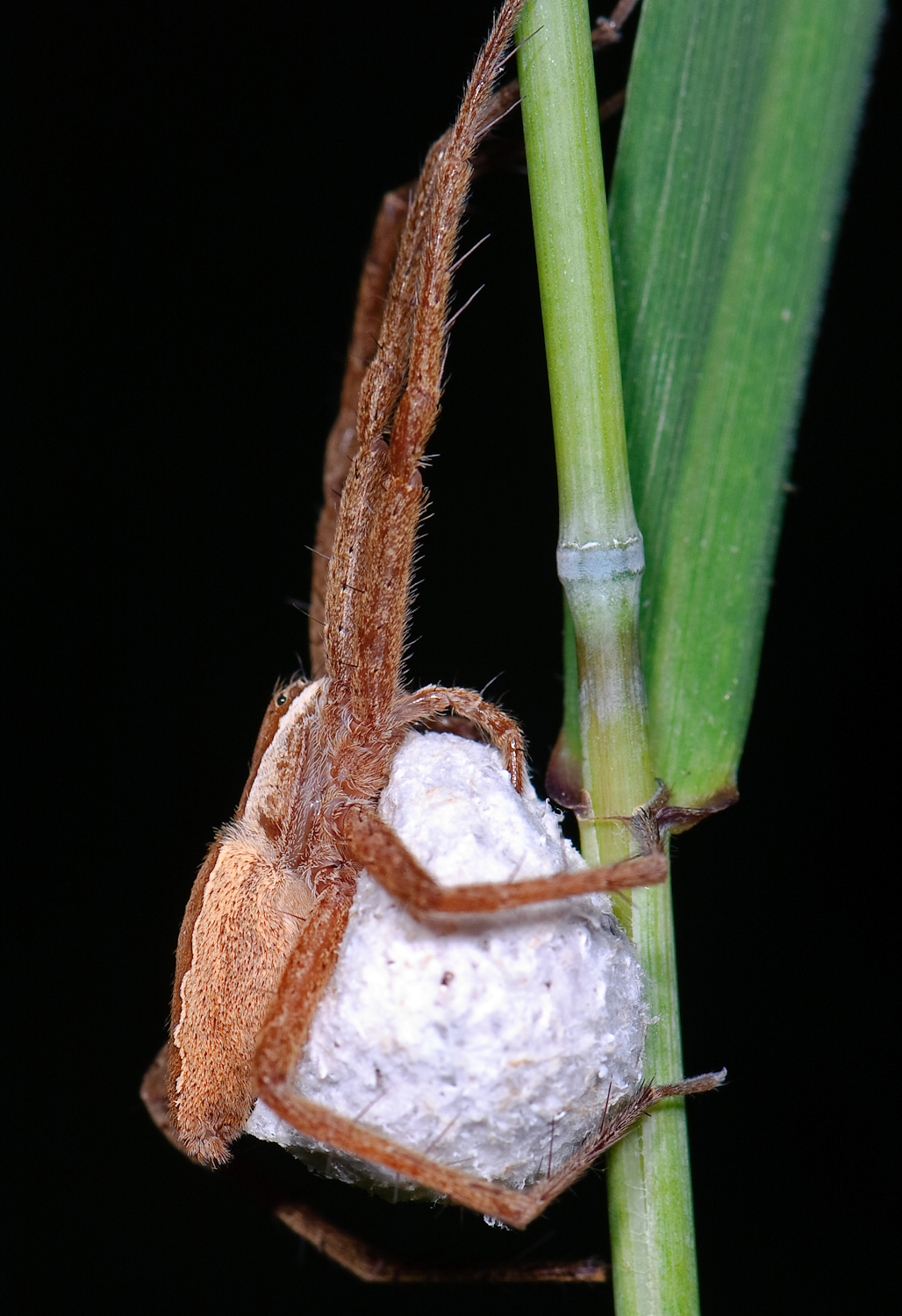 Pisaurina mira (F Pisauridae), with eggsac, photographed in situ, at night, on vegetation